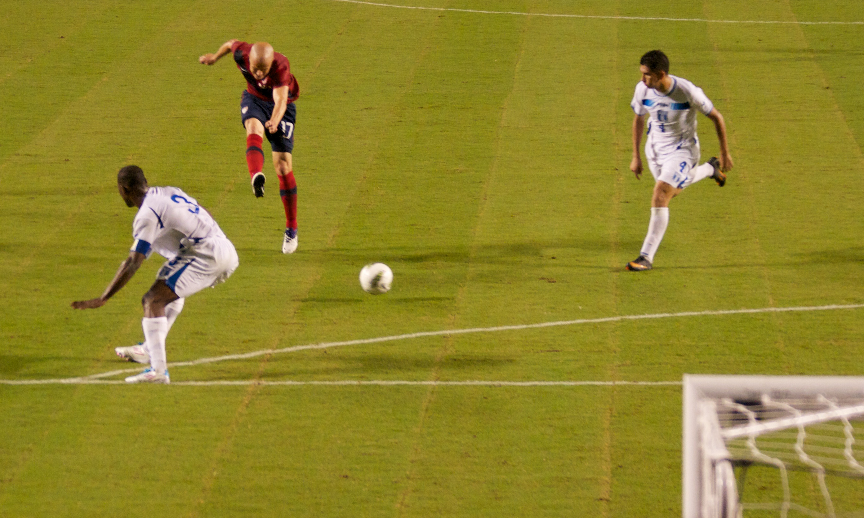 Michael Bradley playing for the United States